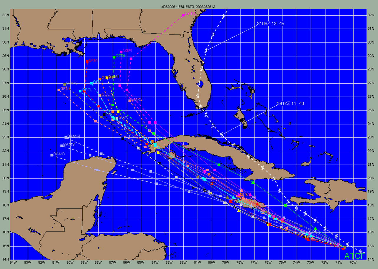 Graphic showing spread in guidance, and failure of the guidance to pick up on Ernesto's more northerly course